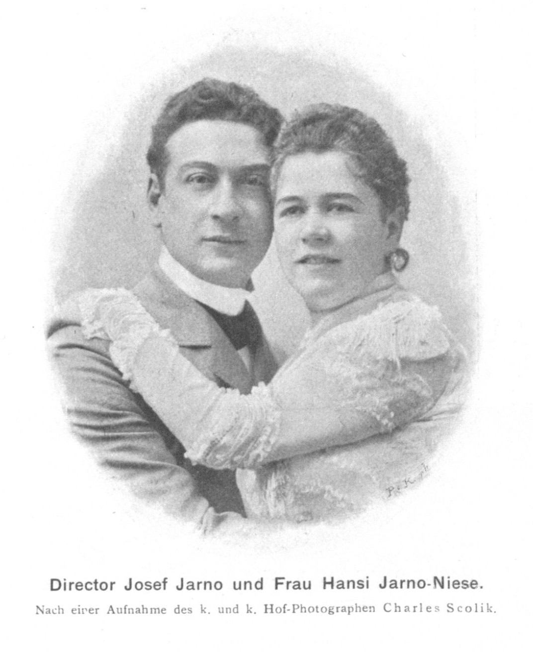 Double portrait of Josef Jarno (1866-1932), Austrian actor and theater director, with his wife Hansi Jarno-Niese (also an actress).